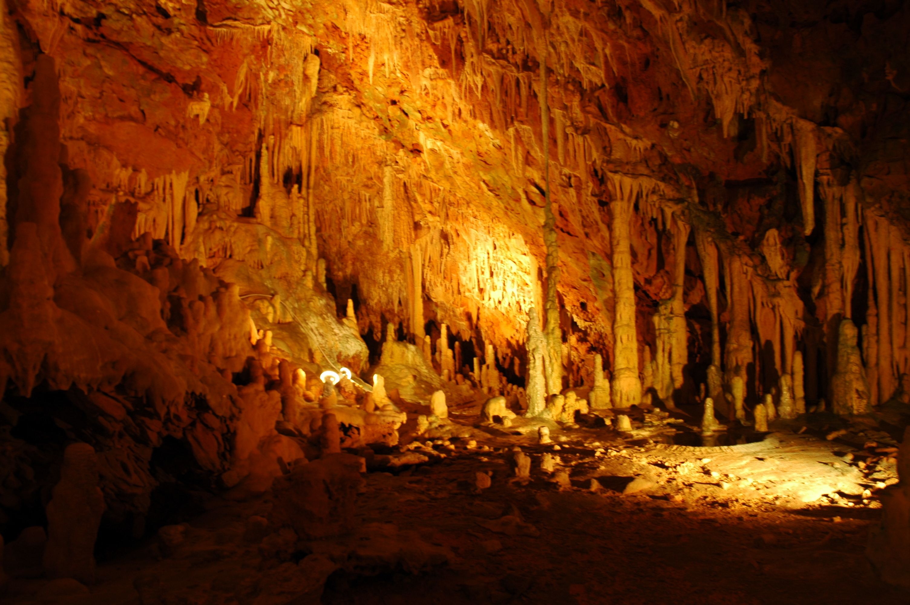 Diros Cave, Greece April '06 Nikon D70 Markos Alexandrou